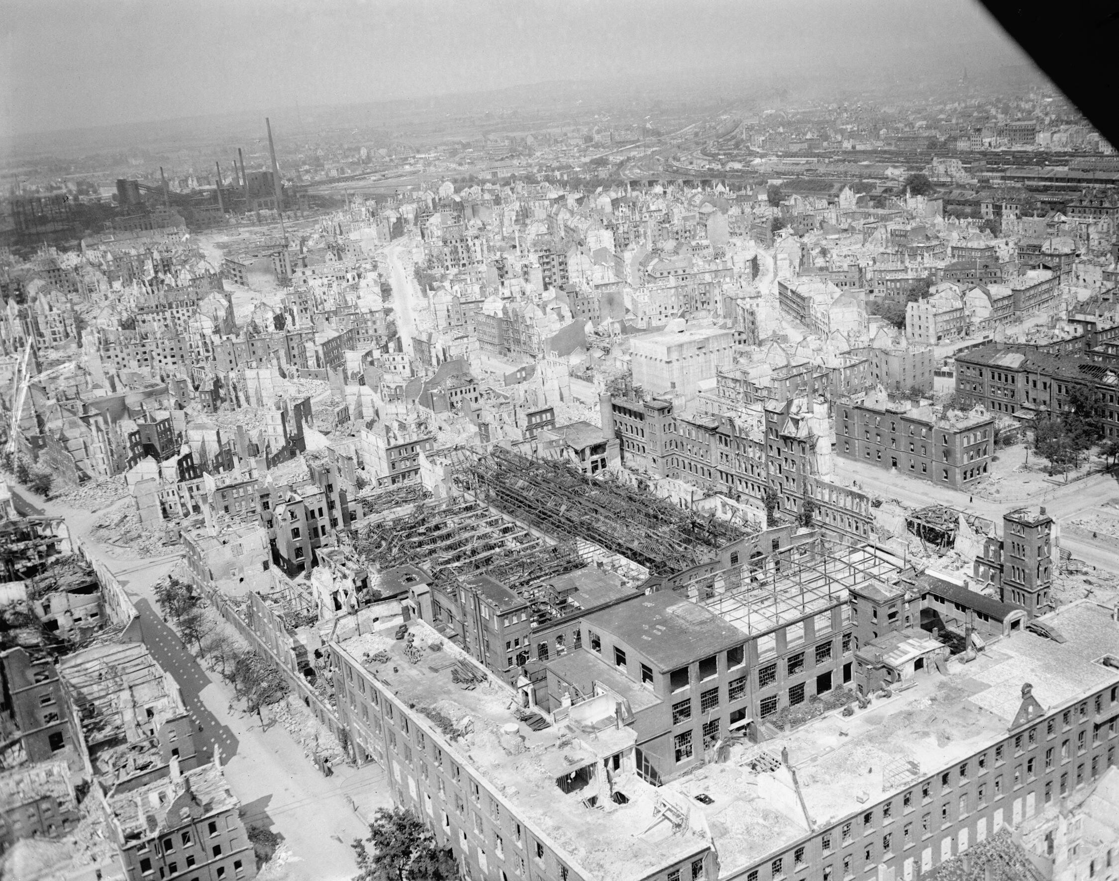 A part of Nuremberg, devastated by Allied bombing, 28 May 1945. Oblique aerial view of heavily-damaged industrial and residential buildings in Nuremberg.